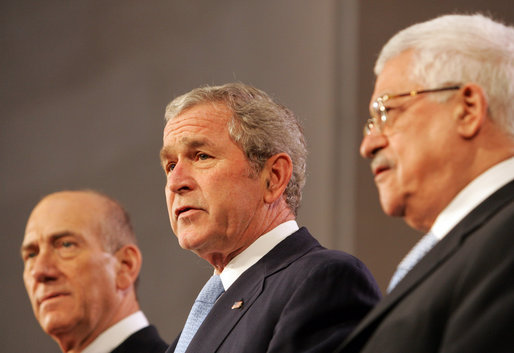 President George W. Bush reads from a joint statement by Israeli Prime Minister Ehud Olmert and Palestinian President Mahmoud Abbas, in which the leaders pledged to resume Mideast peace talks. (White House photo by Chris Greenberg)